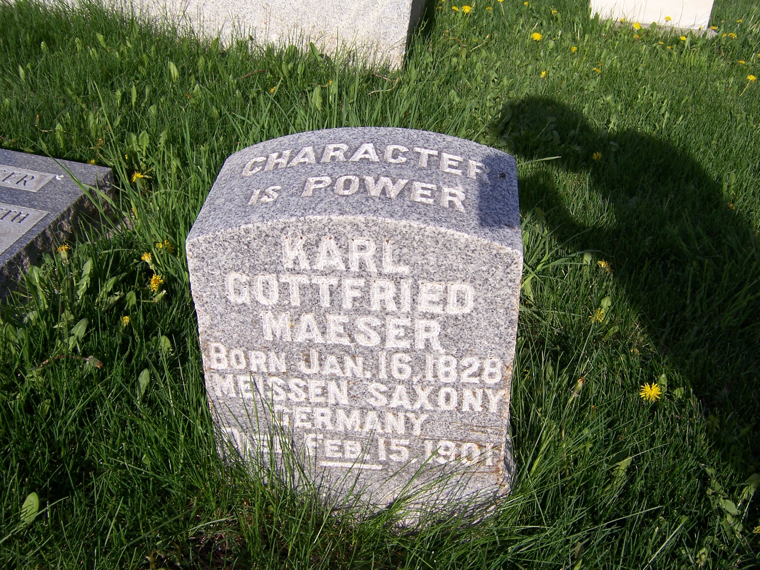 Photograph of Karl G. Maeser's Grave Site